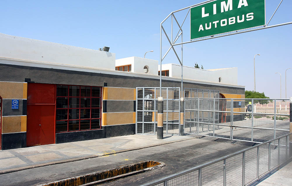 The motor vehicle checkpoint north of Tacna, Peru, due to the city's special free trade zone status